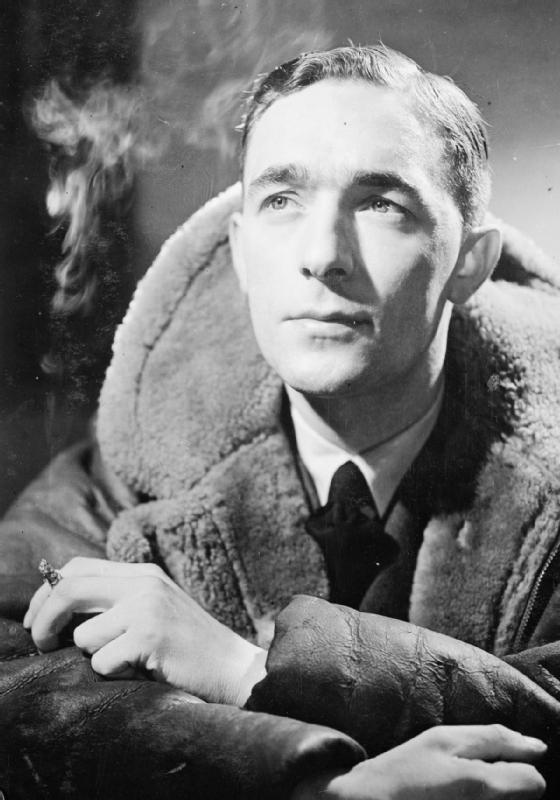 Royal Air Force Fighter Command, 1939-1945. Head and shoulders portrait of Wing Commander D E Kingaby. Photograph taken at the Air Ministry Studios, London.